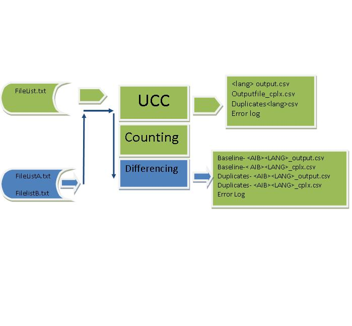 Block Diagram of UCC